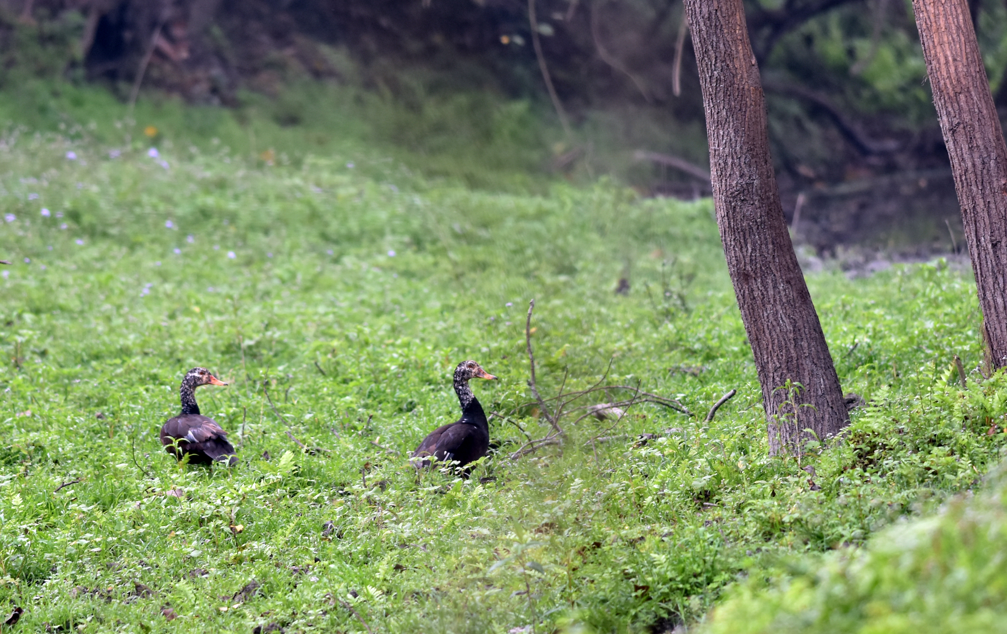 White-winged Wood Duck Asarcornis scutulata, an endangered species of duck, very few left in world, here in Nameri National Park, Assam, India. A colourful, very shy duck; also stays in the woods as well as water.